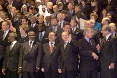 NEW YORK. Participants in the Millennium Summit during a joint photo session.